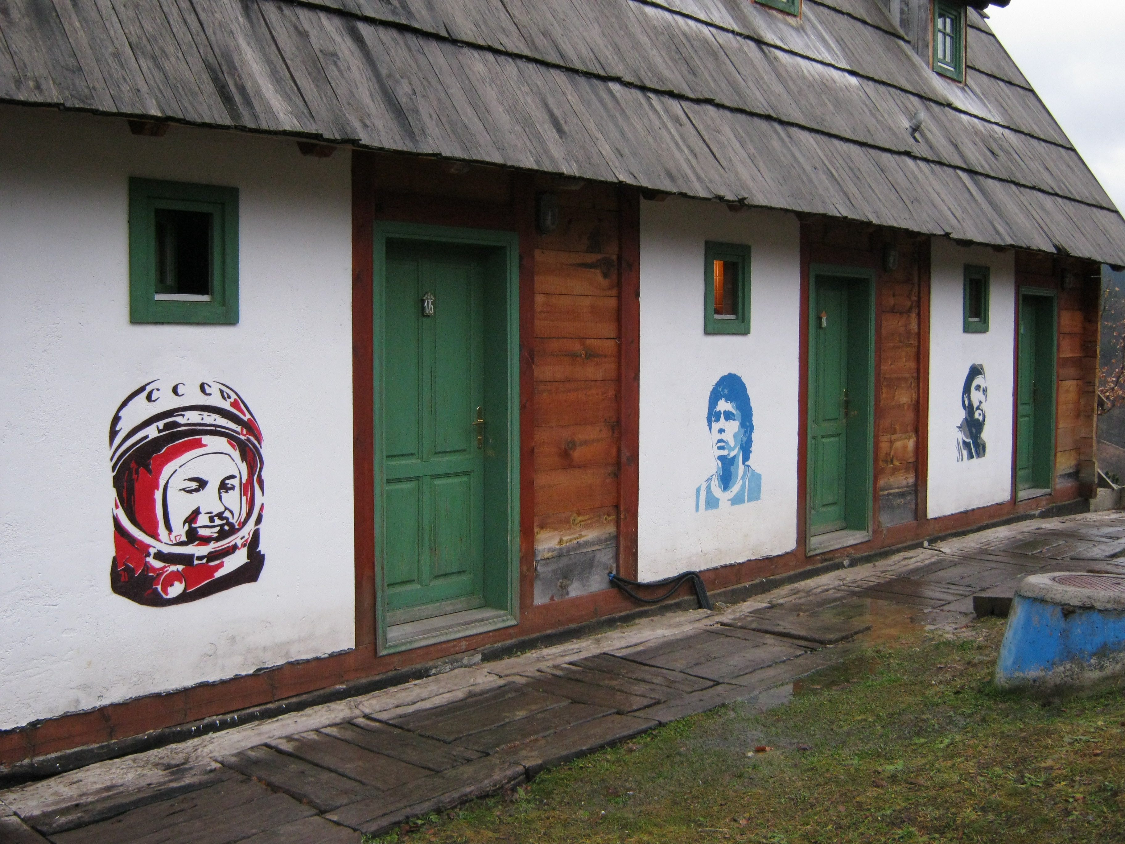 Yuri Gagarin, Diego Maradona and Fidel Castro on graffiti. Drvengrad, Serbia.